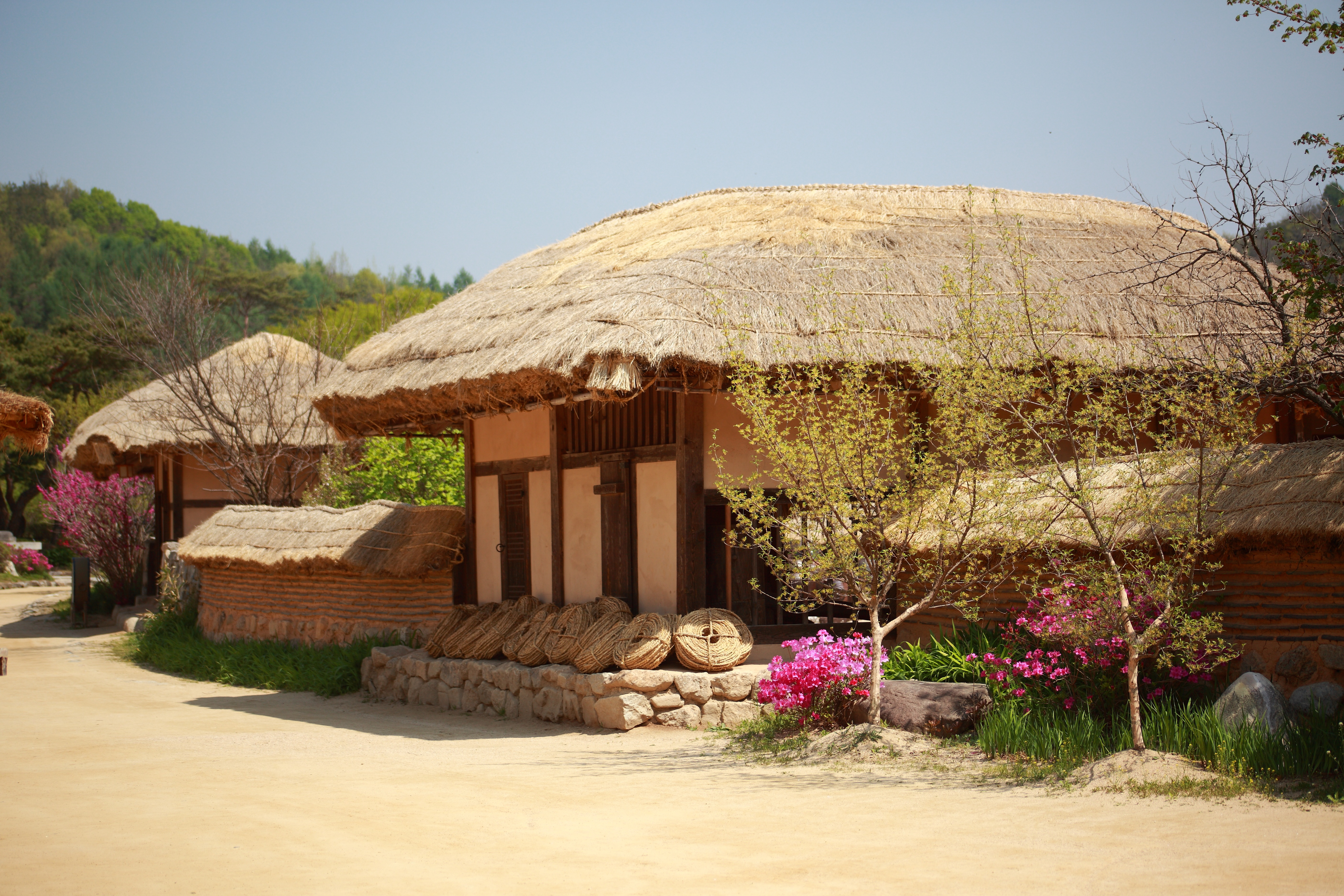 Choga (grass house)